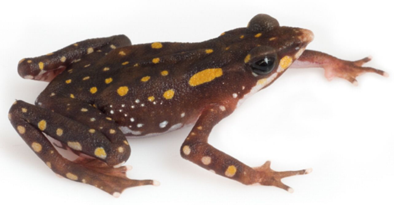 Atelopus longirostris male from Junín, Provincia Imbabura, Ecuador